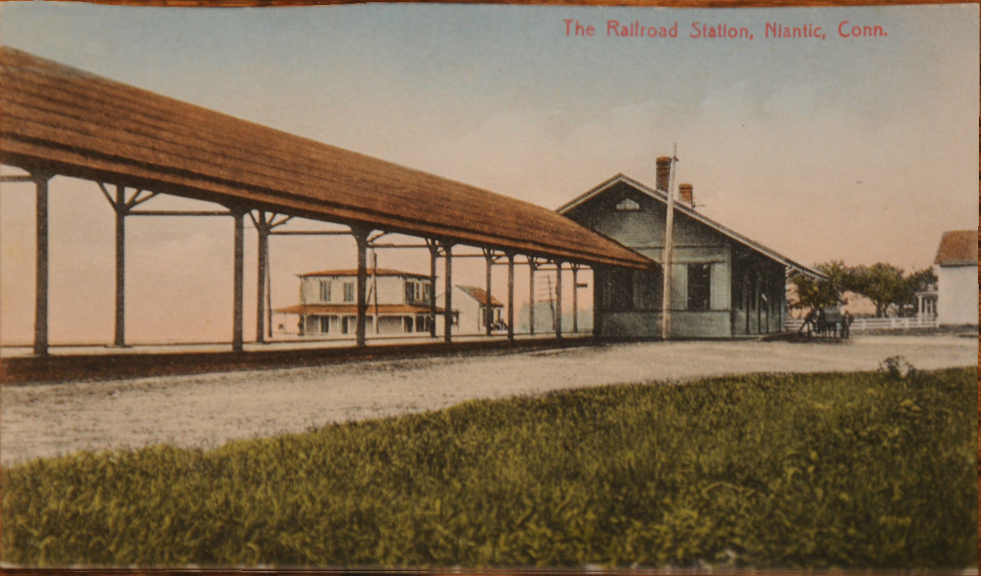 Early divided back postcard of Niantic station